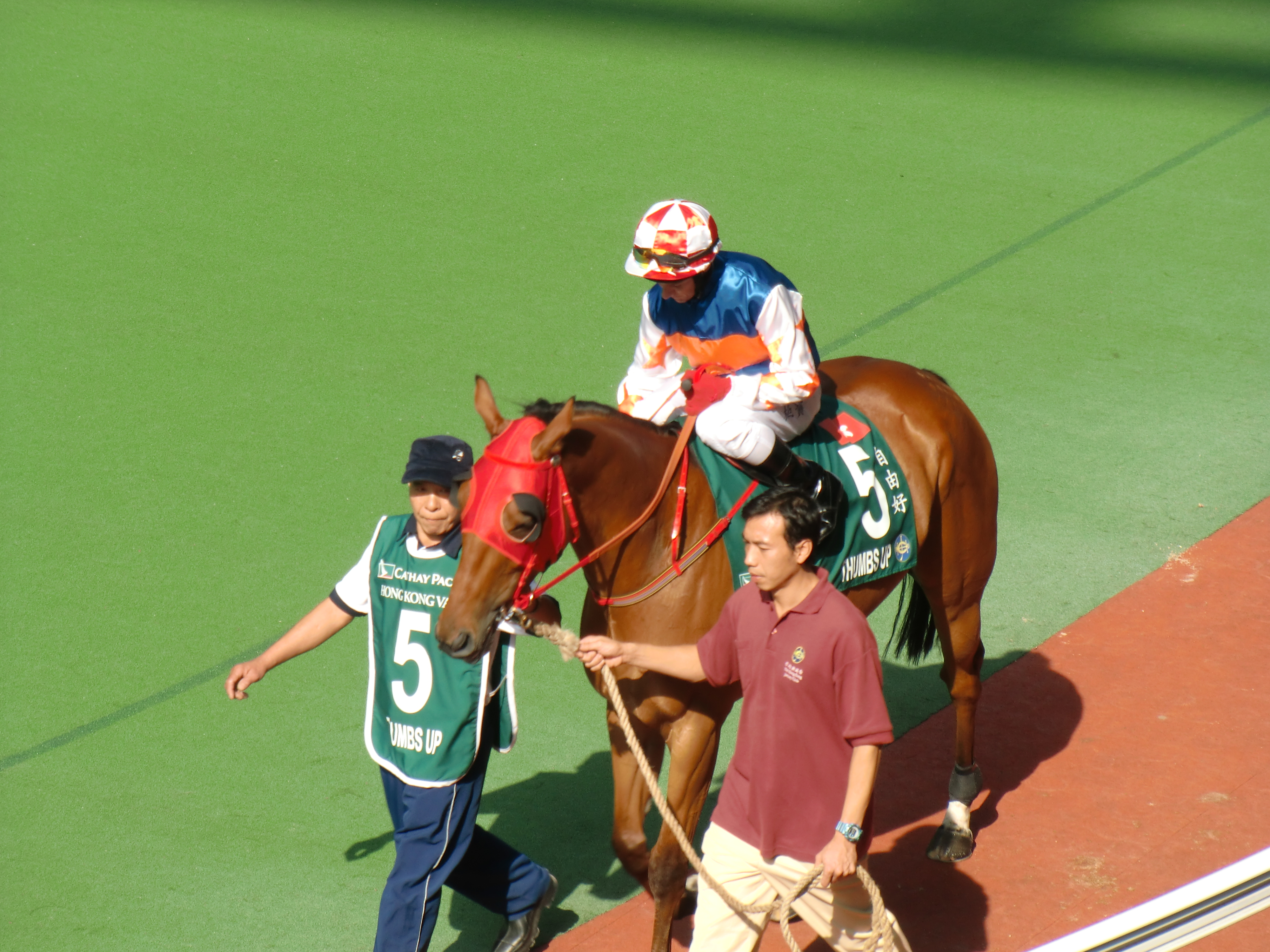 Thumbs Up first wearing blinker in Hong Kong Vase